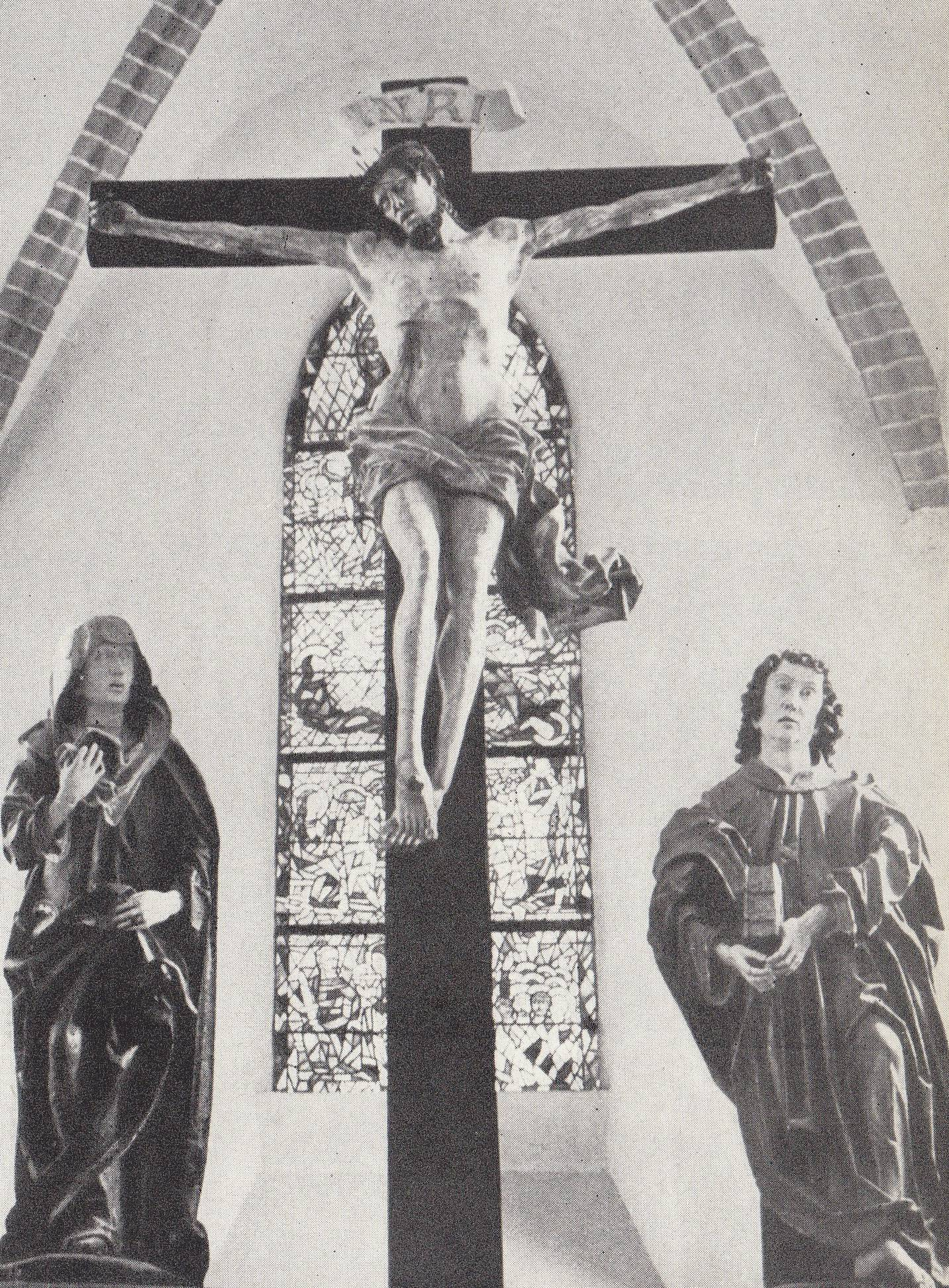 Main altar of Bernardine Church of Saint Catherine of Alexandria in Radom